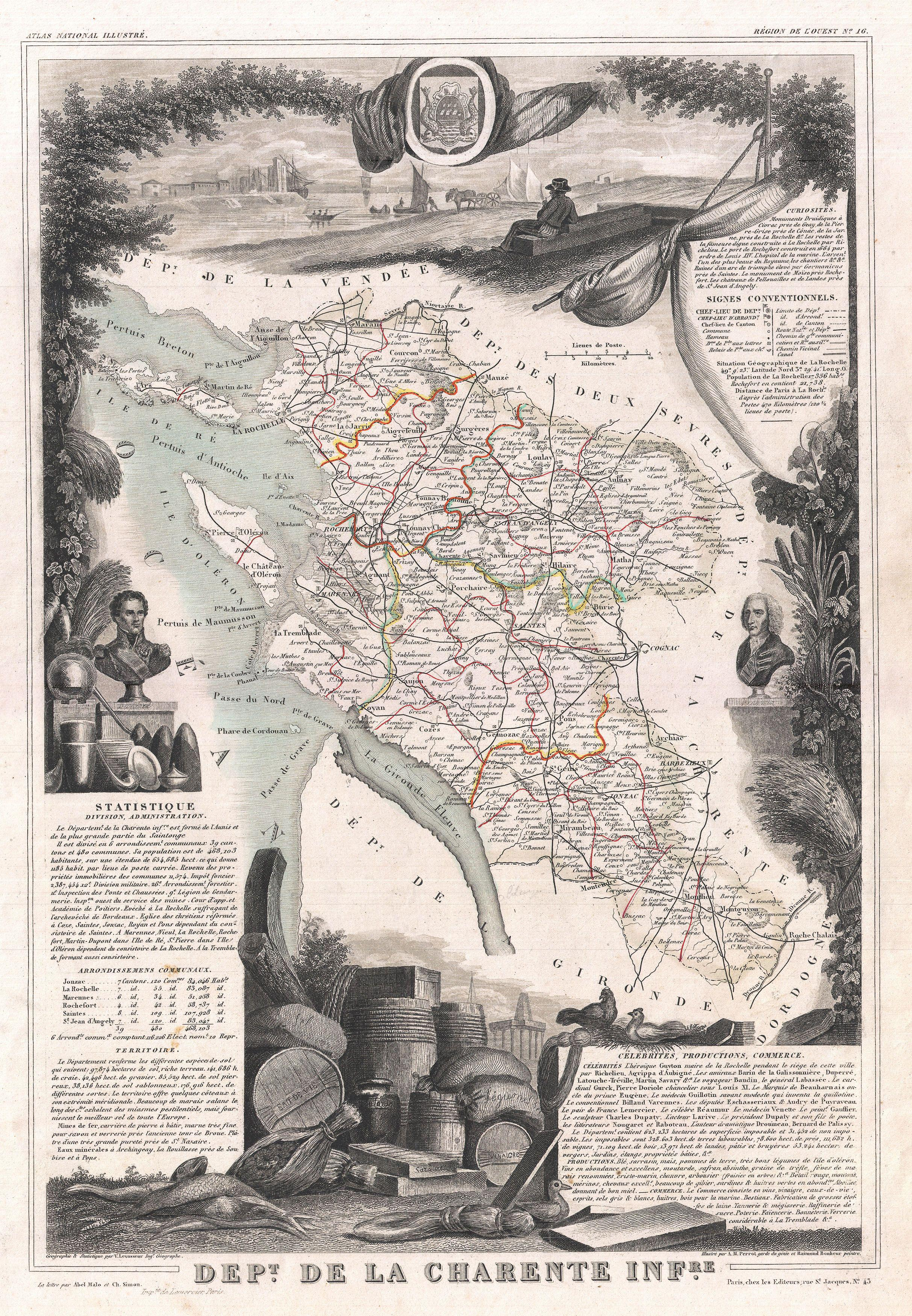 This is a fascinating 1852 map of the French department of Charente Inférieure (Charente Maritime), France. Charente Maritime is a coastal province border Charente, Dordogne, and Gironde (Bordeaux). It is best known as the producer of the world's finest Cognacs. The map proper is surrounded by elaborate decorative engravings designed to illustrate both the natural beauty and trade richness of the land. There is a short textual history of the regions depicted on both the left and right sides of the map. Published by V. Levasseur in the 1852 edition of his Atlas National de la France Illustree.